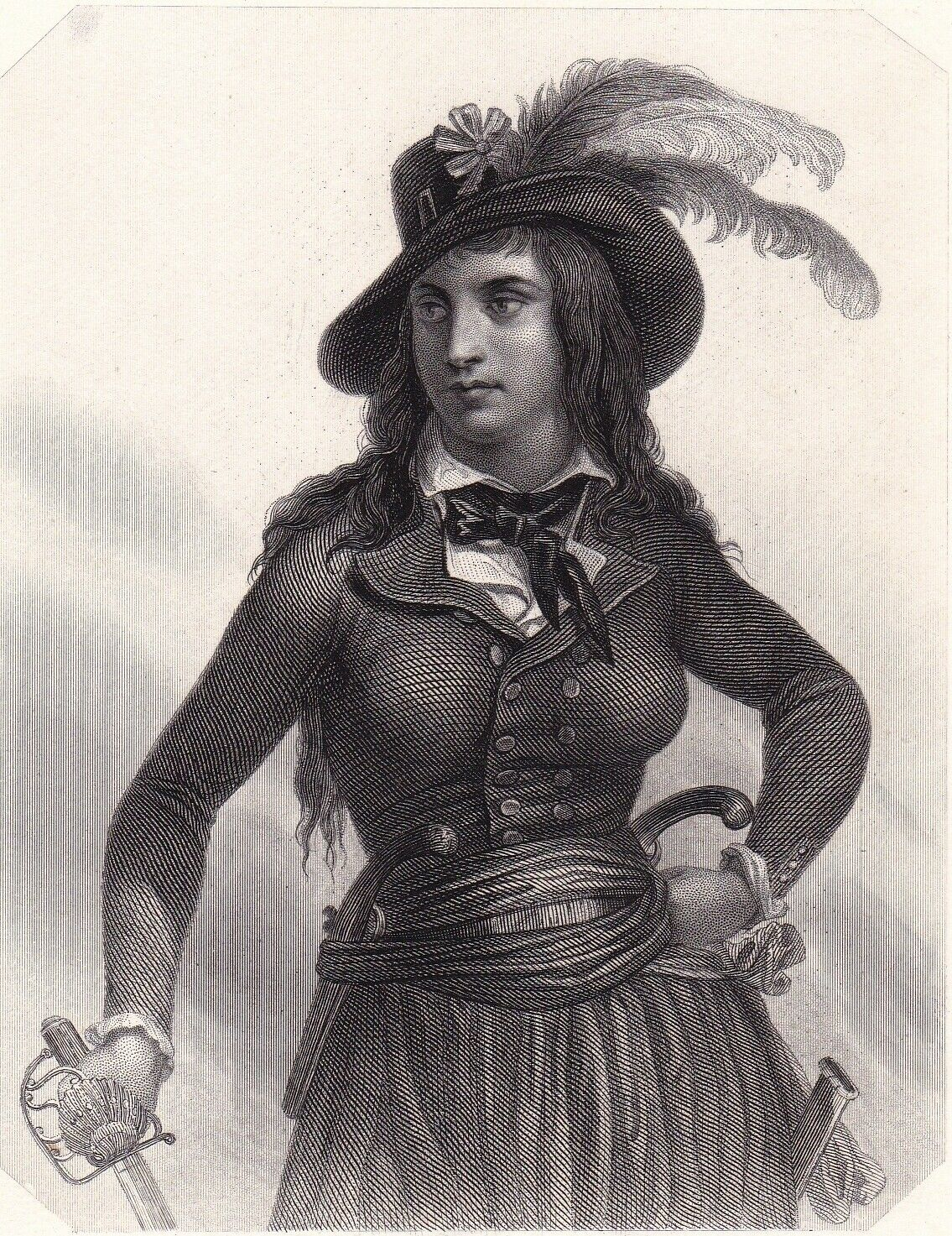 Theroigne de Mericourt (1762 – 1817) French feminist and revolutionary.